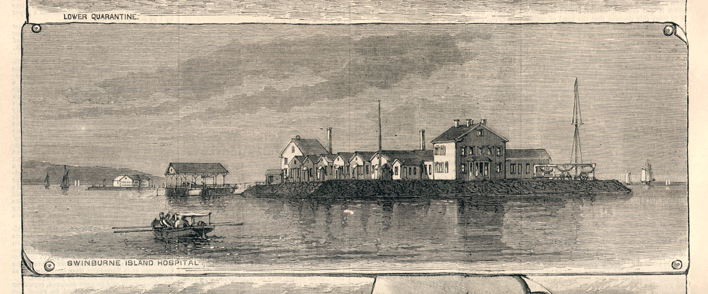 Swinburne Island hospital. From Haper's Weekly, September 6, 1879.